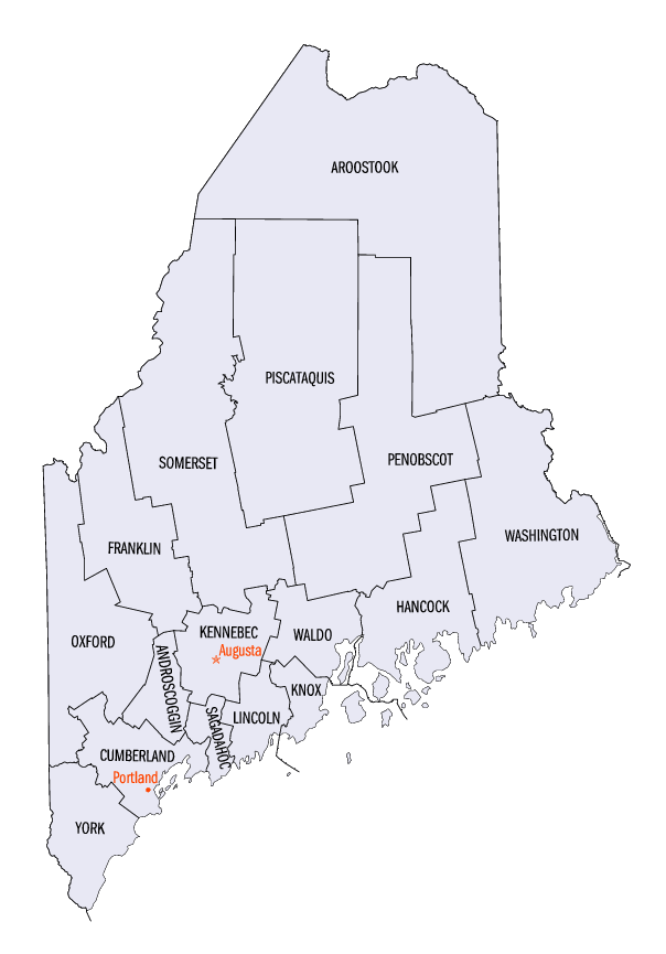 Map delineating State of Maine (USA) Counties.